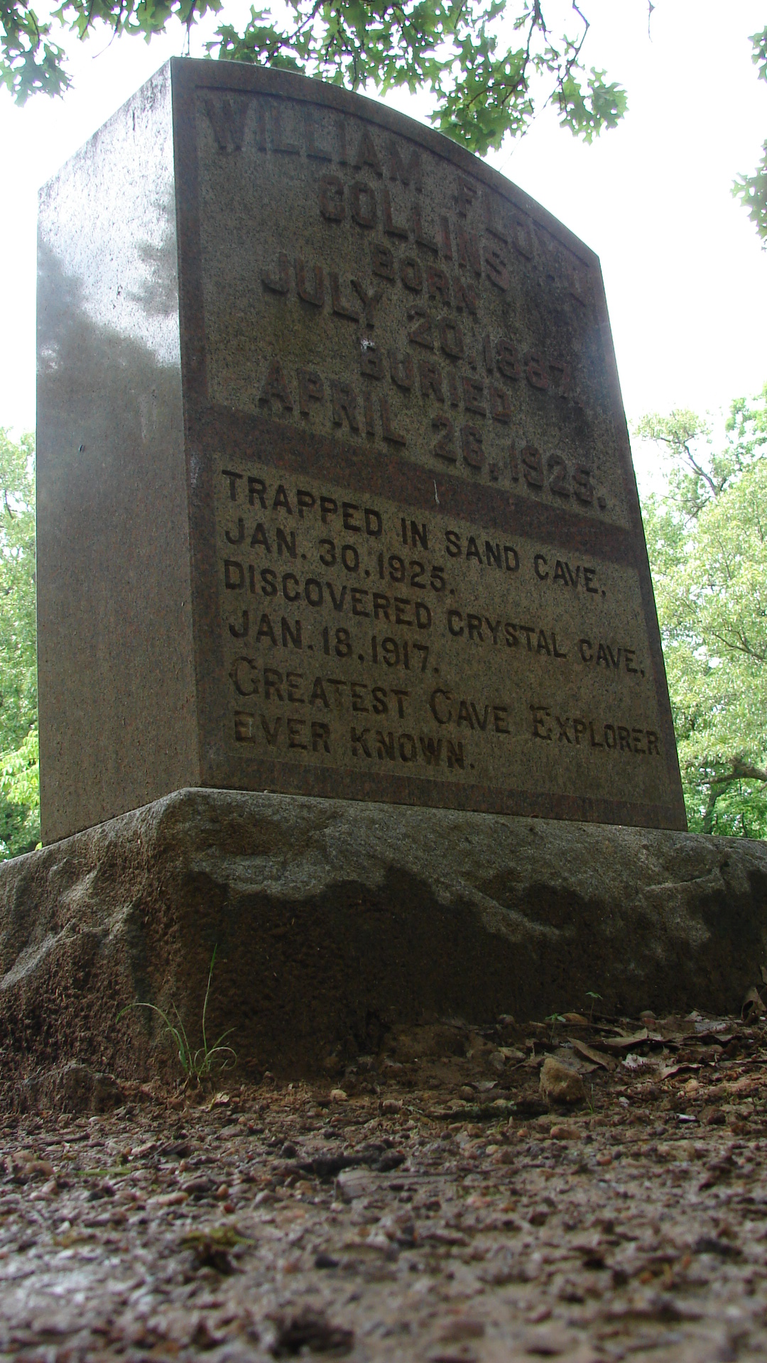 Floyd Collins Grave